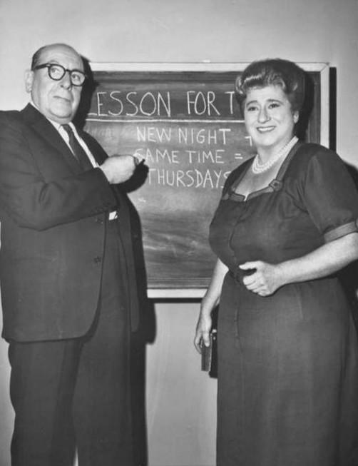 Publicity photo of Sir Cedric Hardwicke and Gertrude Berg for the television program Mrs. G. Goes to College.